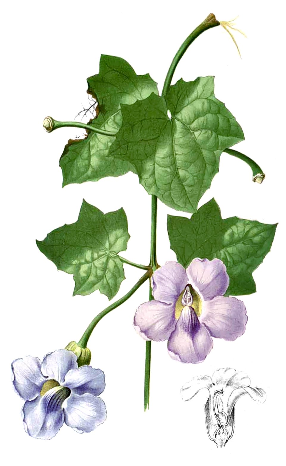 Plate from book